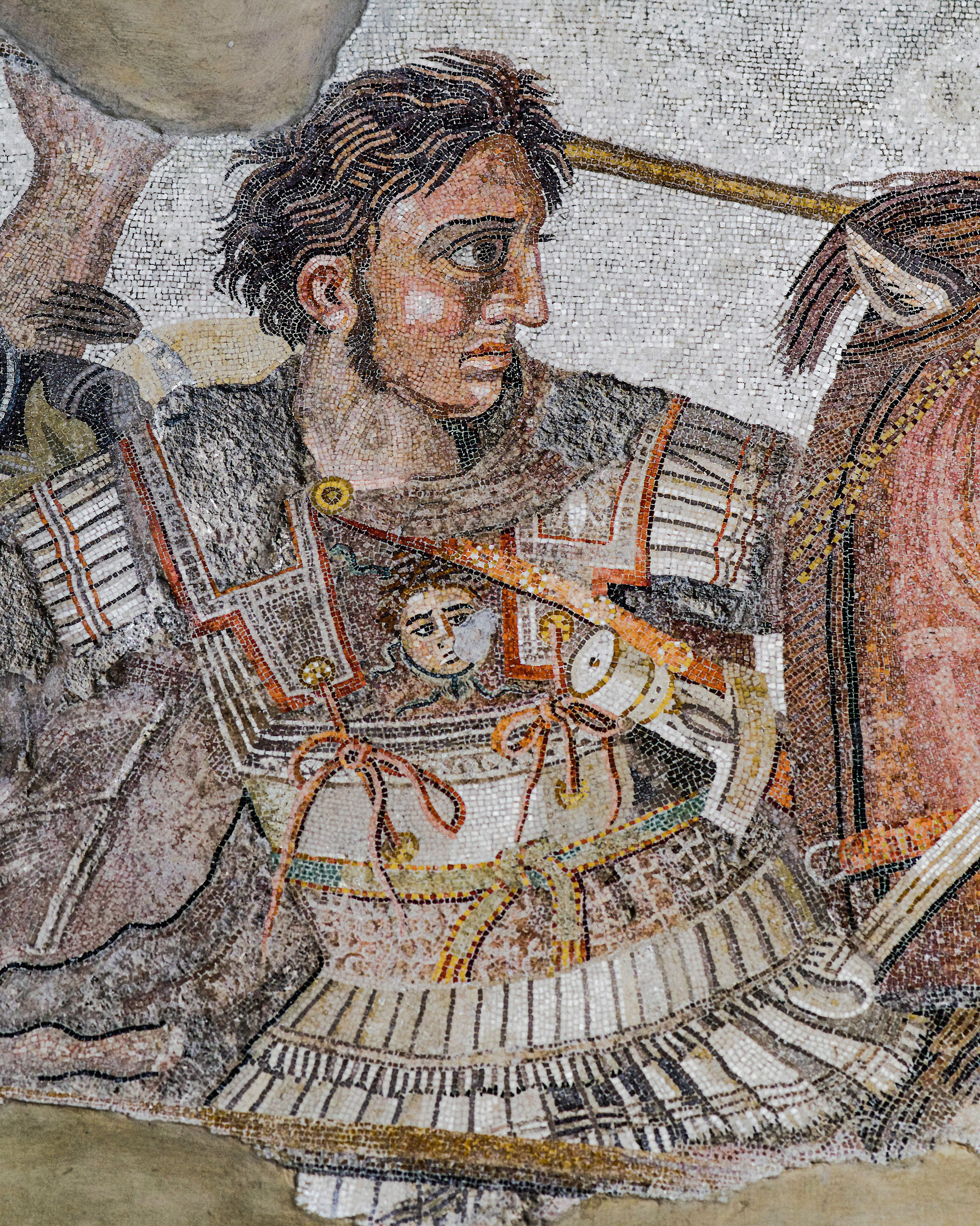 Alexander the Great in a detail of a mosaic representation of the Battle of Issos. A floor mosaic from Pompeii — a Roman copy, after a Hellenistic original by Philoxenos of Eretria.